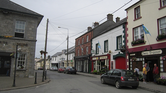 Oldcastle